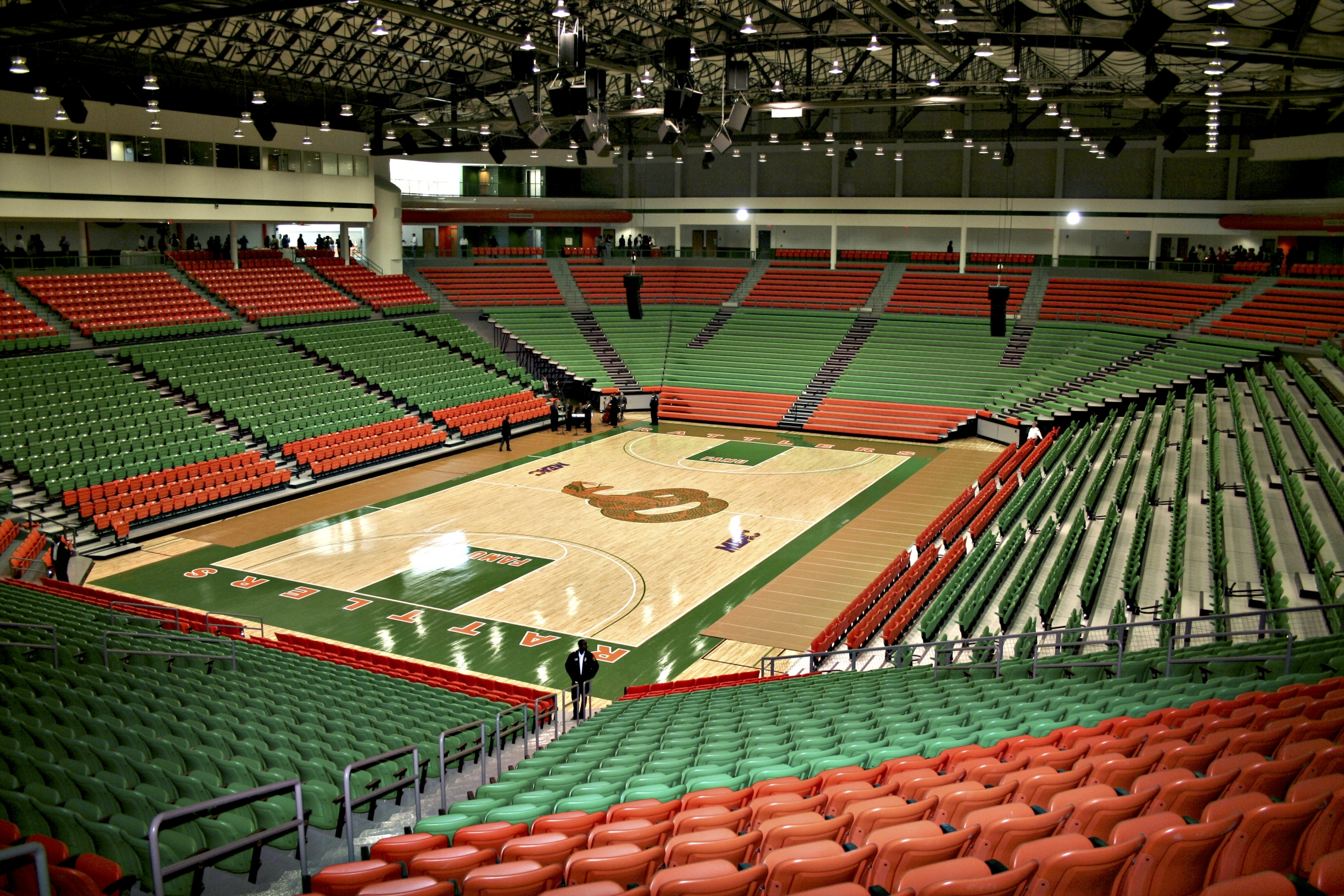 FAMU Basketball Arena